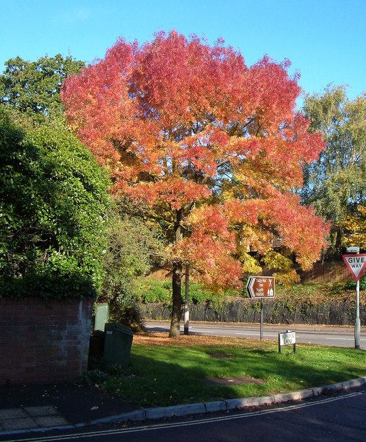 Fraxinus angustifolia, Countess Wear, by the junction of School Road (foreground) with the A3016 Topsham Road. A glorious sight for a brief period each autumn, as the leaves shift from green to red.